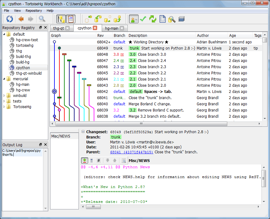 TortoiseHg history